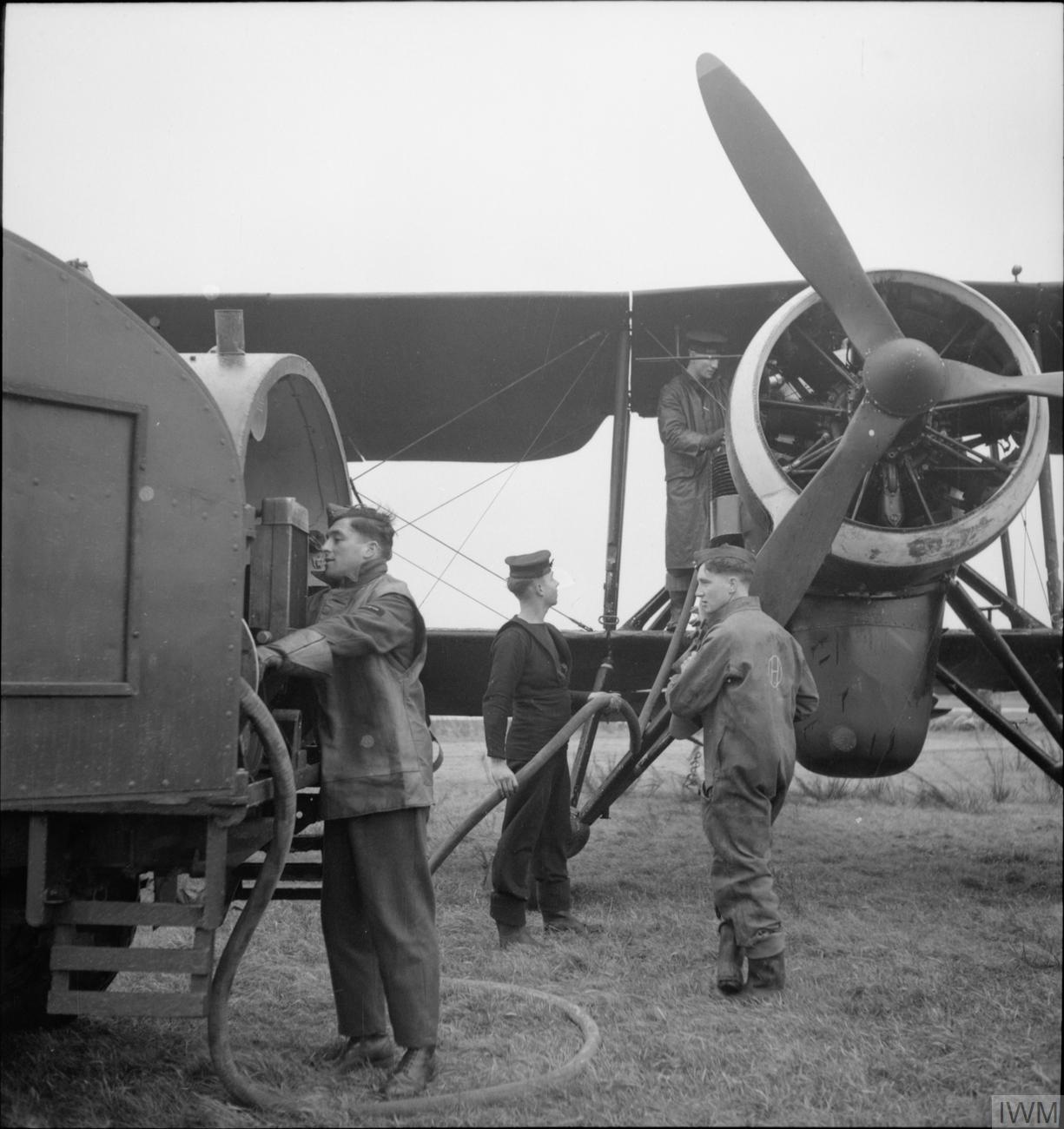 Royal Air Force Coastal Command, 1939-1945. RAF and Royal Navy ground crew refuel a Fairey Swordfish Mark III of No. 119 Squadron RAF Detachment at B65/Maldeghem, Begium.